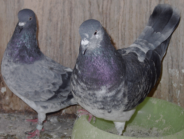 Jack Boden Tipplers.